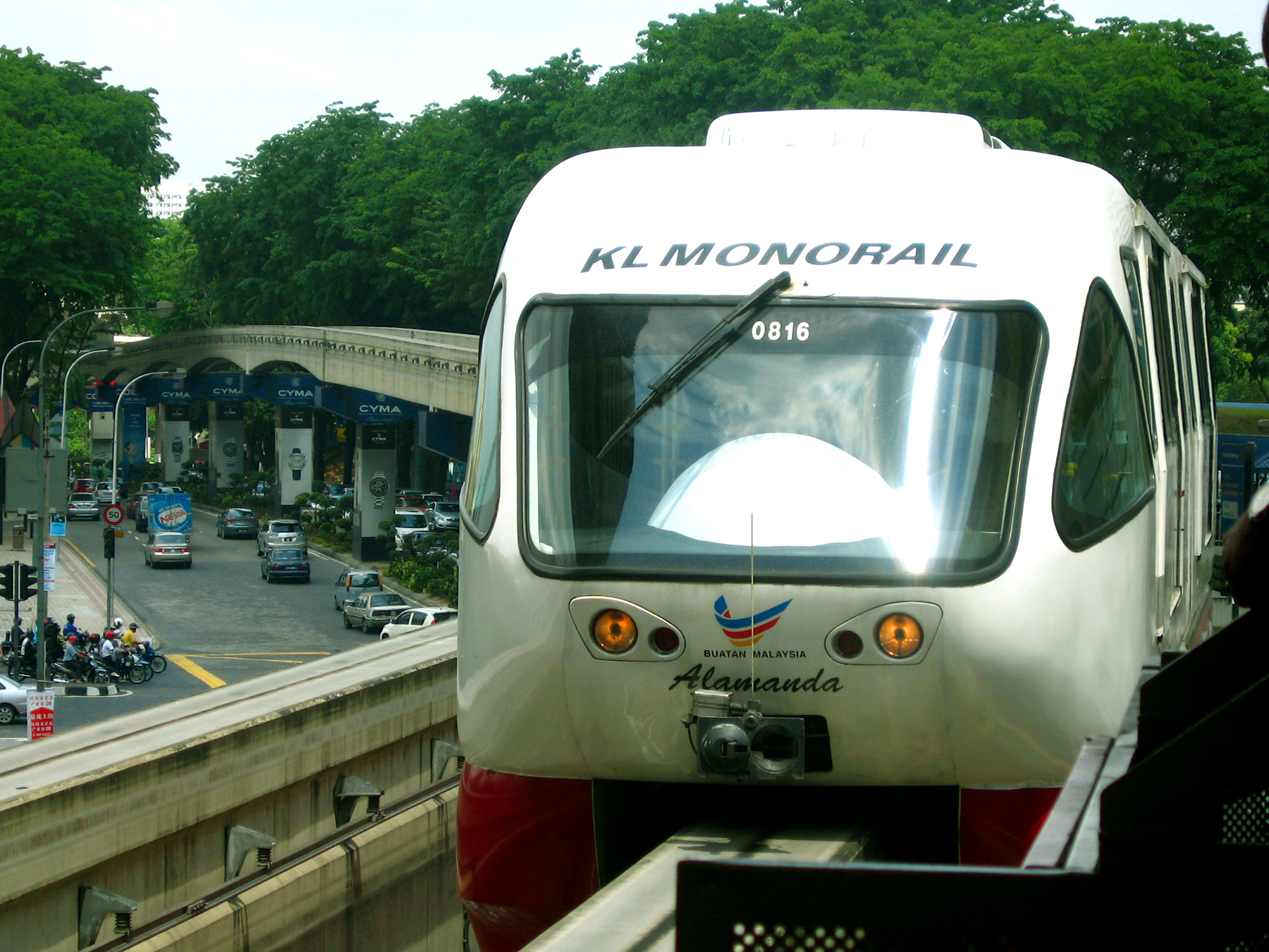 KL Monorail in Kuala Lumpur City, Malaysia